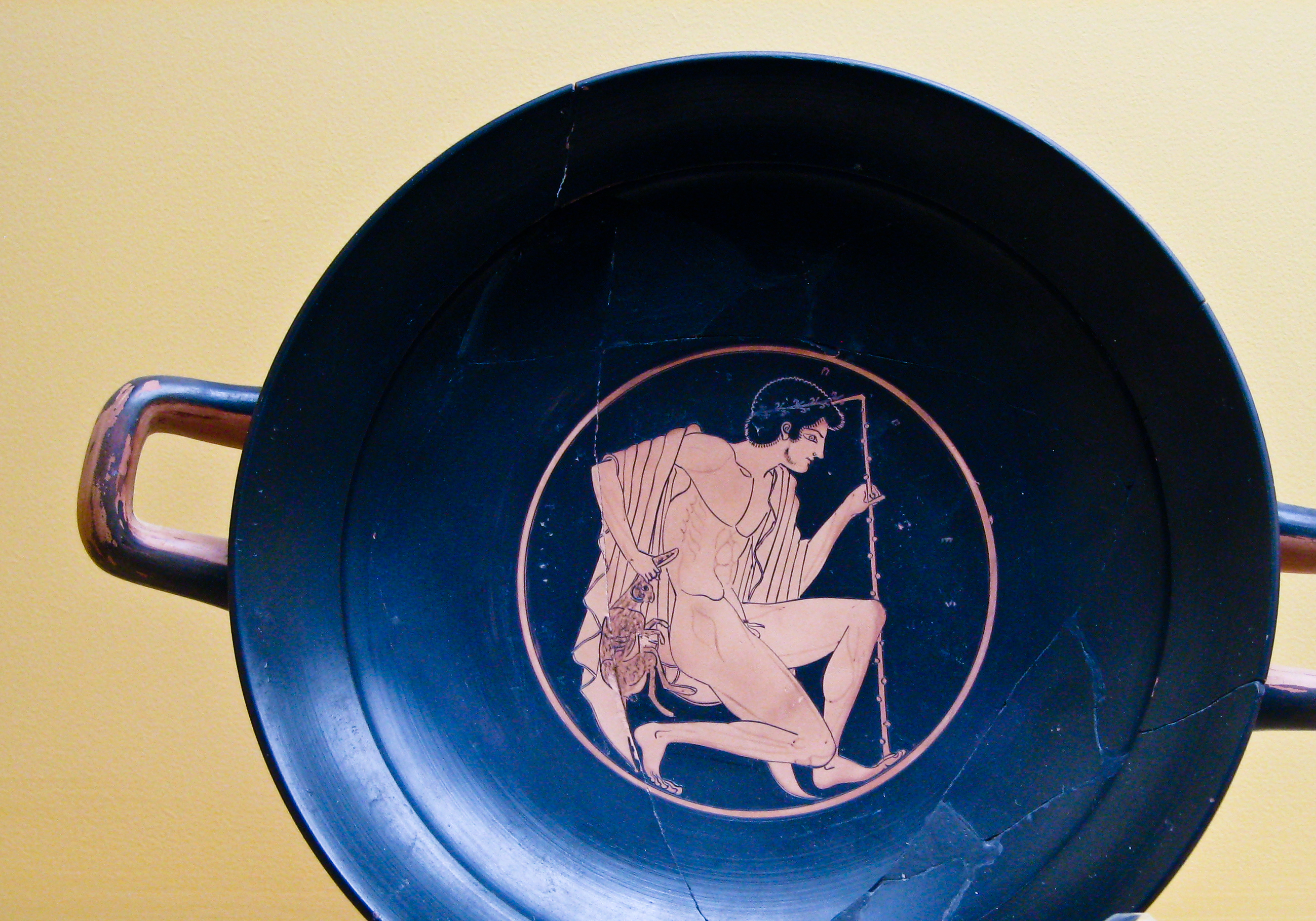 Signed by potter Gorgos, ca 510-500 BC